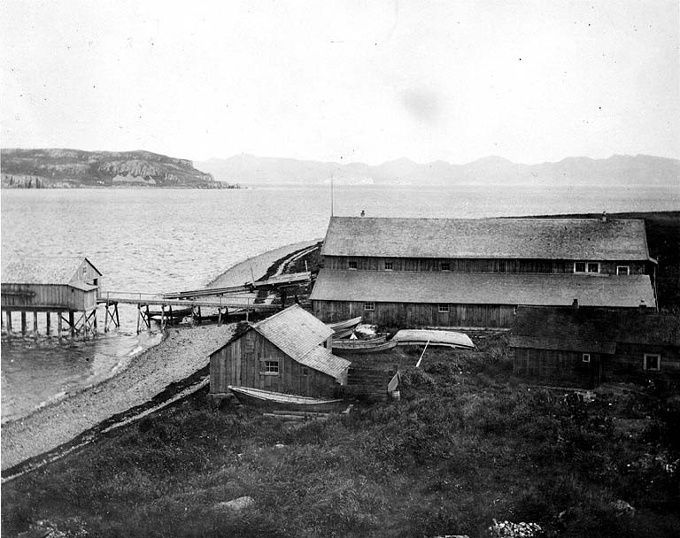 From John Cobb field notebook: Squaw Harbor, Alaska, station, Alaska Codfish Co., Unga Island. Aug. 1913 Subjects (LCTGM): Fishing industry--Alaska--Squaw Harbor Subjects (LCSH): Alaska Codfish Company; Cod fisheries--Alaska--Squaw Harbor; Codfish--Preservation--Alaska--Squaw Harbor